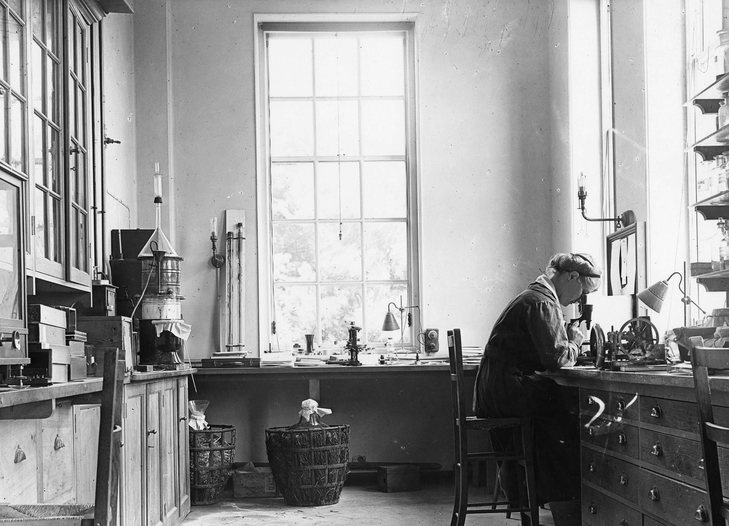 Botanist Winifred Brenchley working in her laboratory at Rothamsted Experimental Station